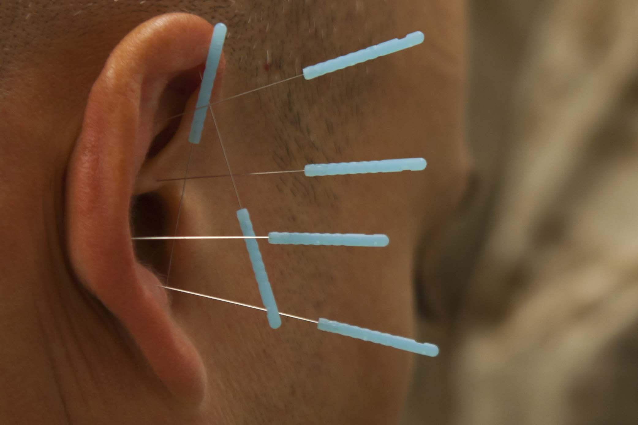 Acupuncture needles protrude from the ear of a patient at the combined aid station on Camp Leatherneck, Helmand province, Afghanistan, Dec. 13, 2013. Navy Lt. Orlando Cabrera, a native of Plainfield, N.J., and medical acupuncturist, routinely uses the age-old practice of acupuncture to treat servicemembers with physical or emotional issues at the base.